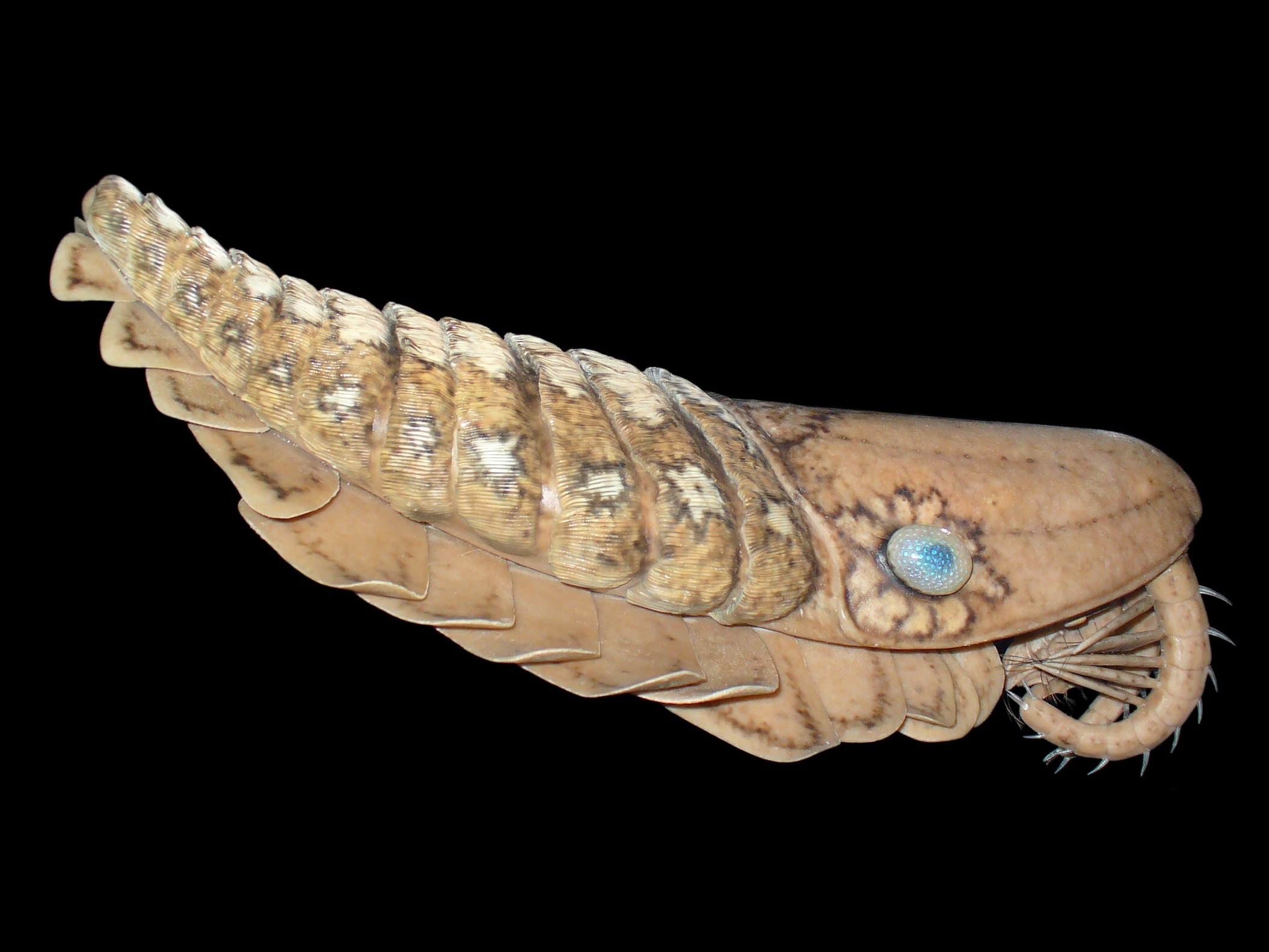 Laggania cambria, Anomalocarididae; Model in life size (about 60 cm) based on fossils from Burgess Shale (middle Cambrian), Canada; Staatliches Museum für Naturkunde Karlsruhe, Germany.